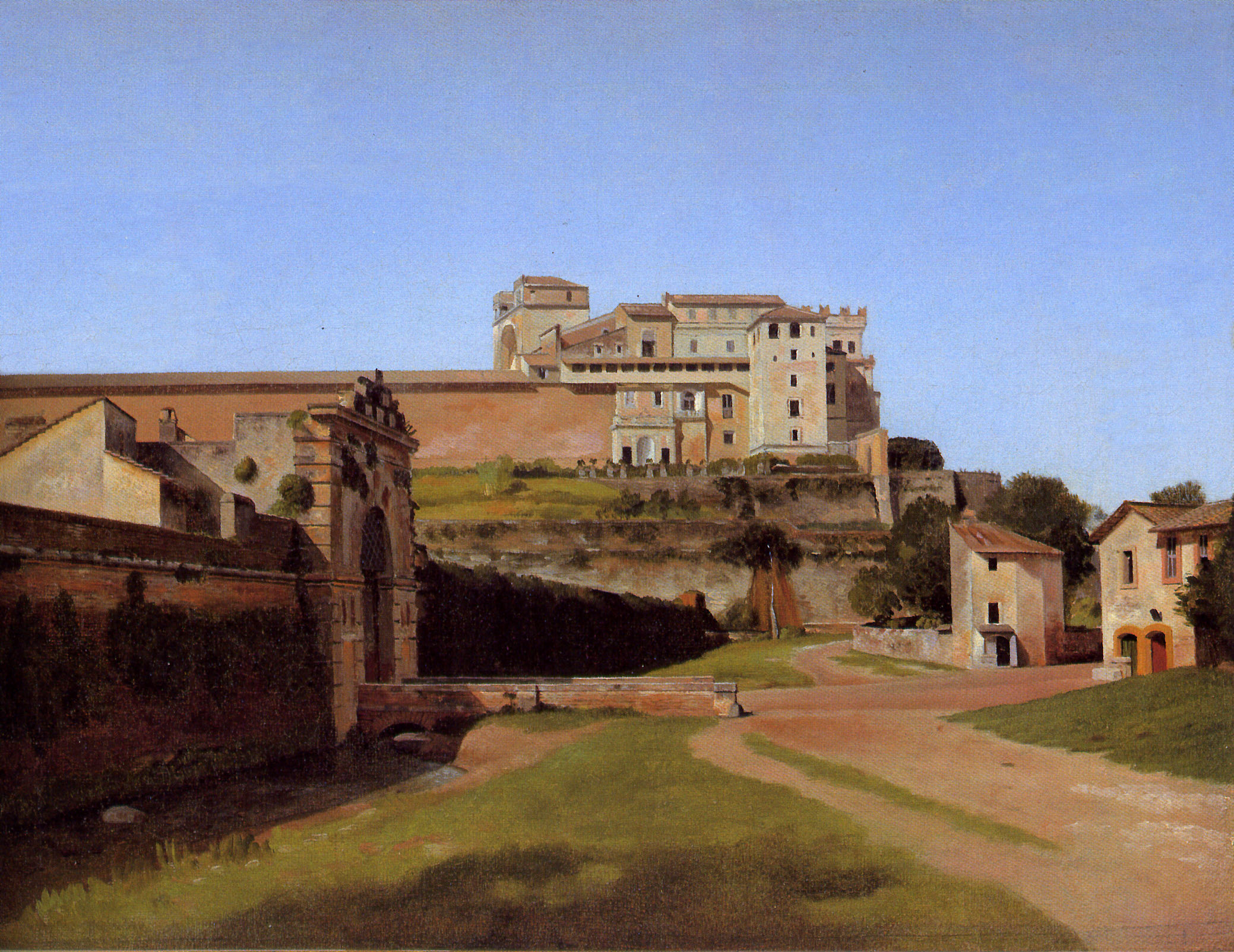 Porta Angelica and Part of the Vatican. Original at Category:Statens Museum for Kunst